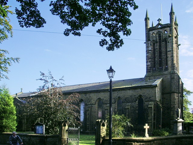 All Saints Church, Clayton-le-Moors